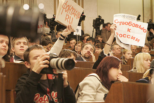 THE KREMLIN, MOSCOW. The President's annual press conference for the Russian and foreign media.